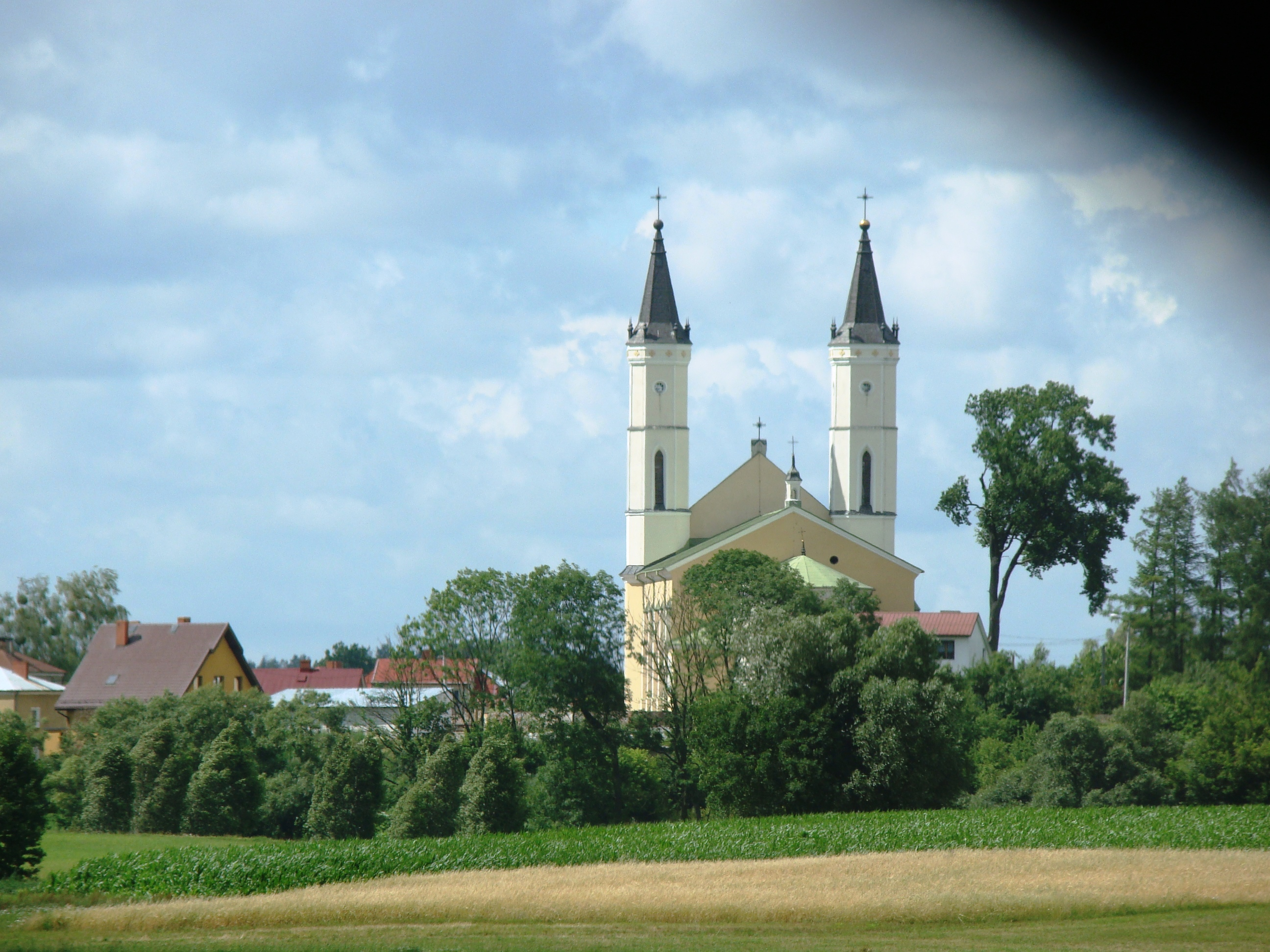 Exaltation of the Holy Cross church in Bargłów Kościelny, Poland